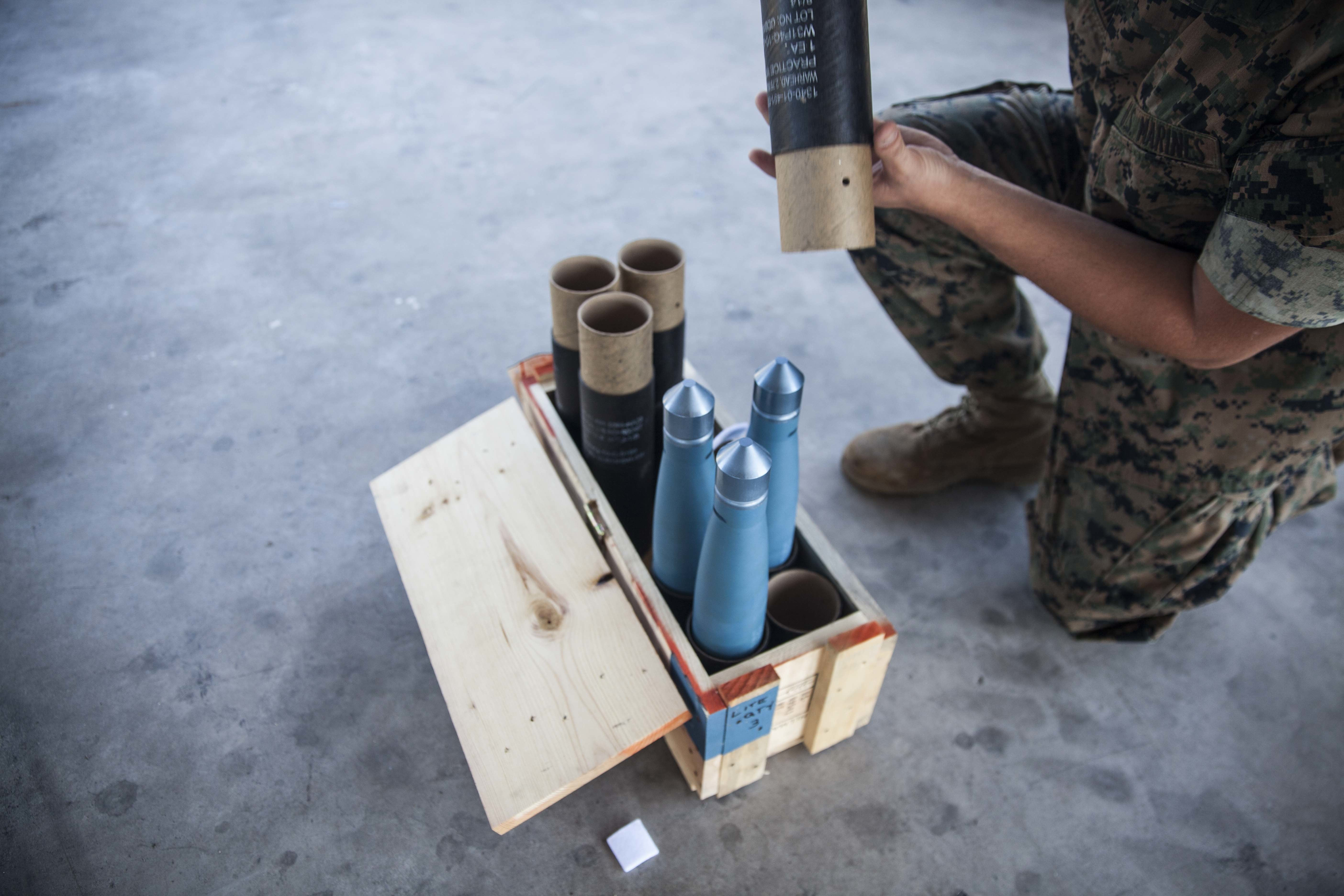 U.S. Marine Corps Lance Cpl. kyle E. Degenhardt, an aviation ordnance technician assigned to Marine Aviation Logistics Squadron (MALS) 29, removes simulation warheads for assembly aboard Marine Corps Air Station New River, N.C., Oct 18, 2016. MALS-29’s mission is to provide aviation logistics support, guidance, planning, and direction to other squadrons within the Marine Aircraft Group, as well as logistics support for Navy funded equipment in the supporting Marine Wing Support Squadron, Marine Air Control Group, and Marine Aircraft Wing/Mobile Calibration Complex. (Marine Corps Photo by Lance Cpl. Anthony J. Brosilow/Released) Unit: 2nd Marine Aircraft Wing Combat Camera